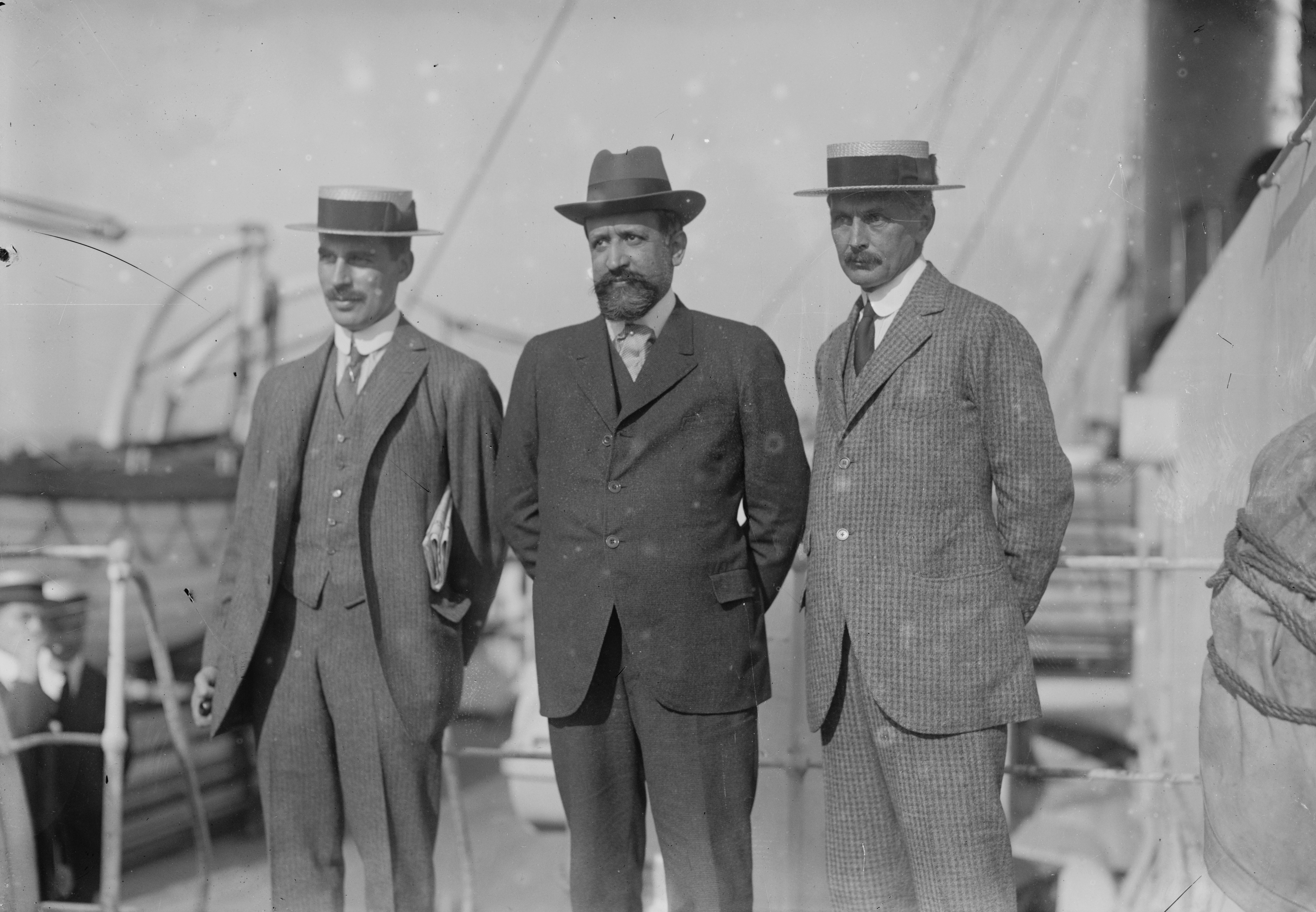 B.B. Blackett and Octave Homberg and Ernest Mallet in 1915 arriving in New York City as members of the Anglo-French Financial Commission